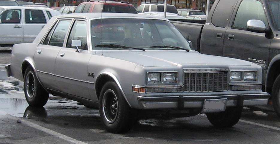 1982-1989 Plymouth Gran Fury photographed in USA.